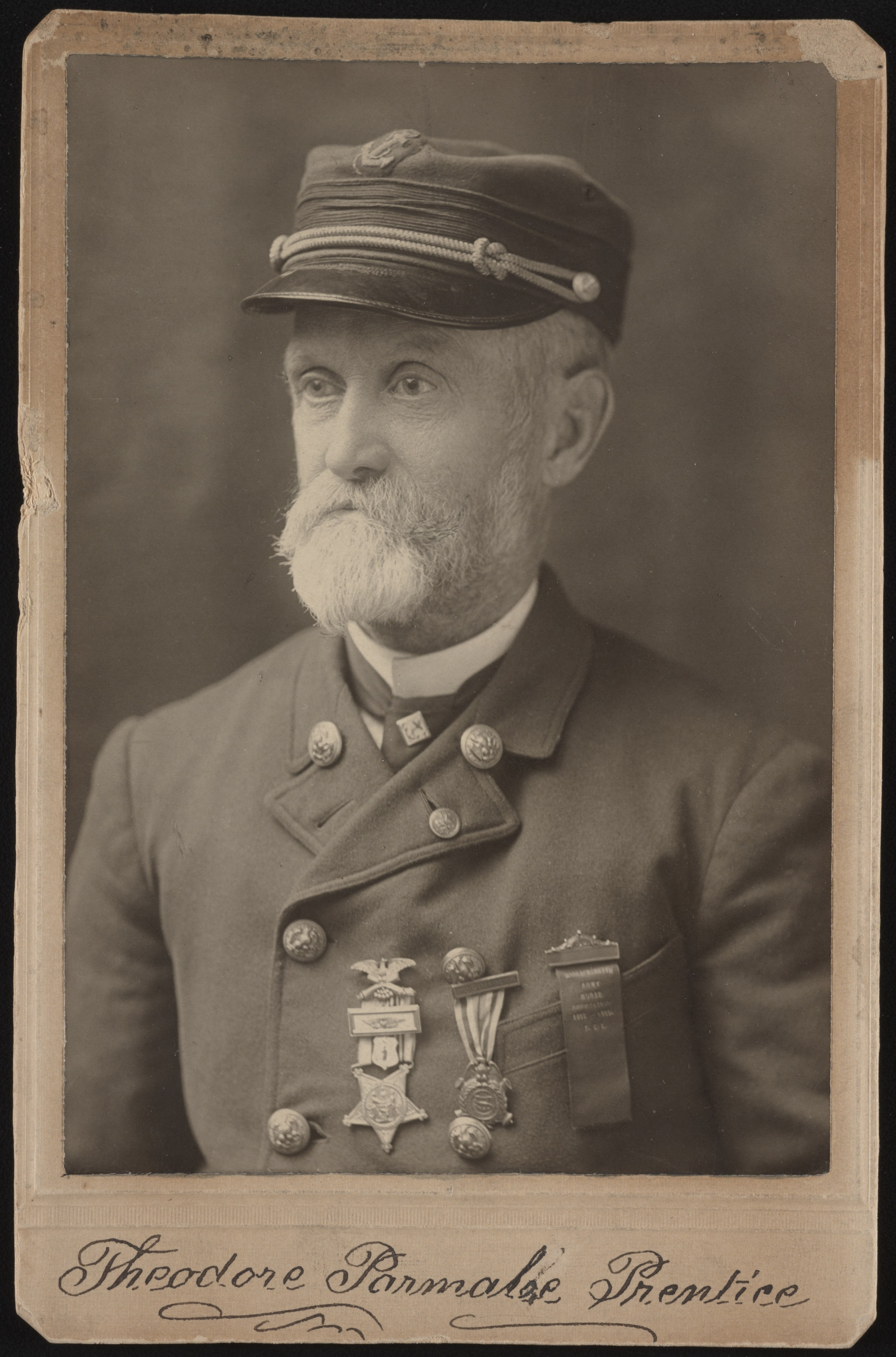 Title: Civil War veteran Theodore Parmalee Prentice Abstract/medium: 1 photograph : print ; sheet 14 x 10 cm, mount 17 x 11 cm (cabinet card format)